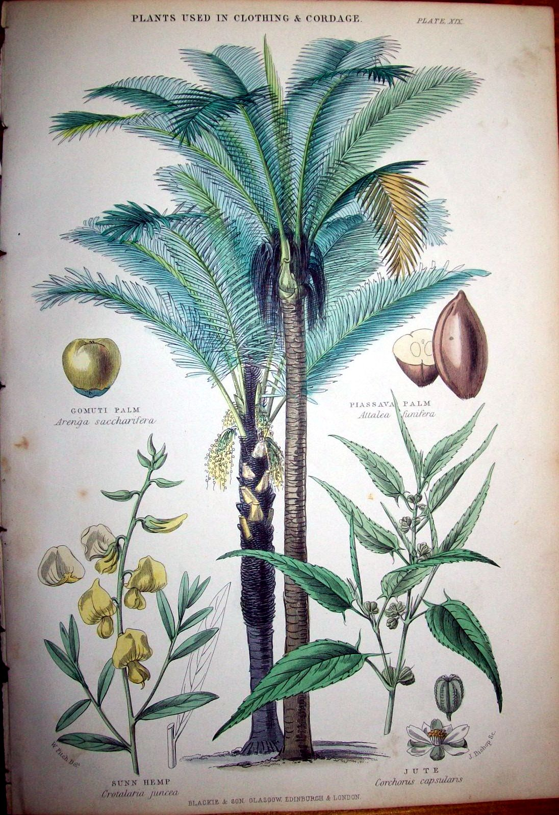 Gomuti Palm, Piassava Palm, Sunn Hemp, Jute, from "A History of the Vegetable Kingdom" by William Rhind (published in London by Blackie & Son, 1874). Walter Hood Fitch supplied most of the illustrations for this work.